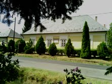 Parish in Kápolna